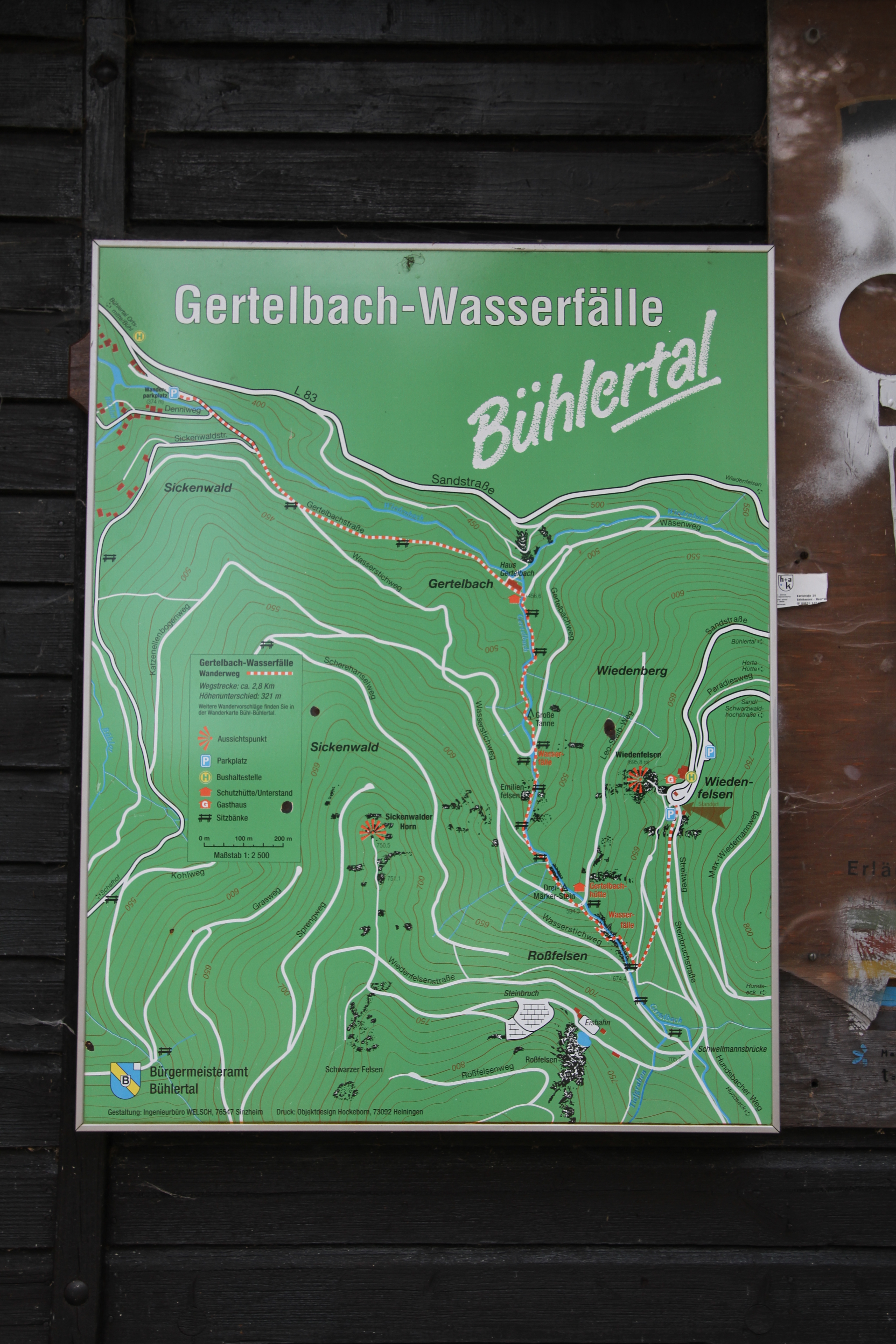 A map around the Gertelbach falls.